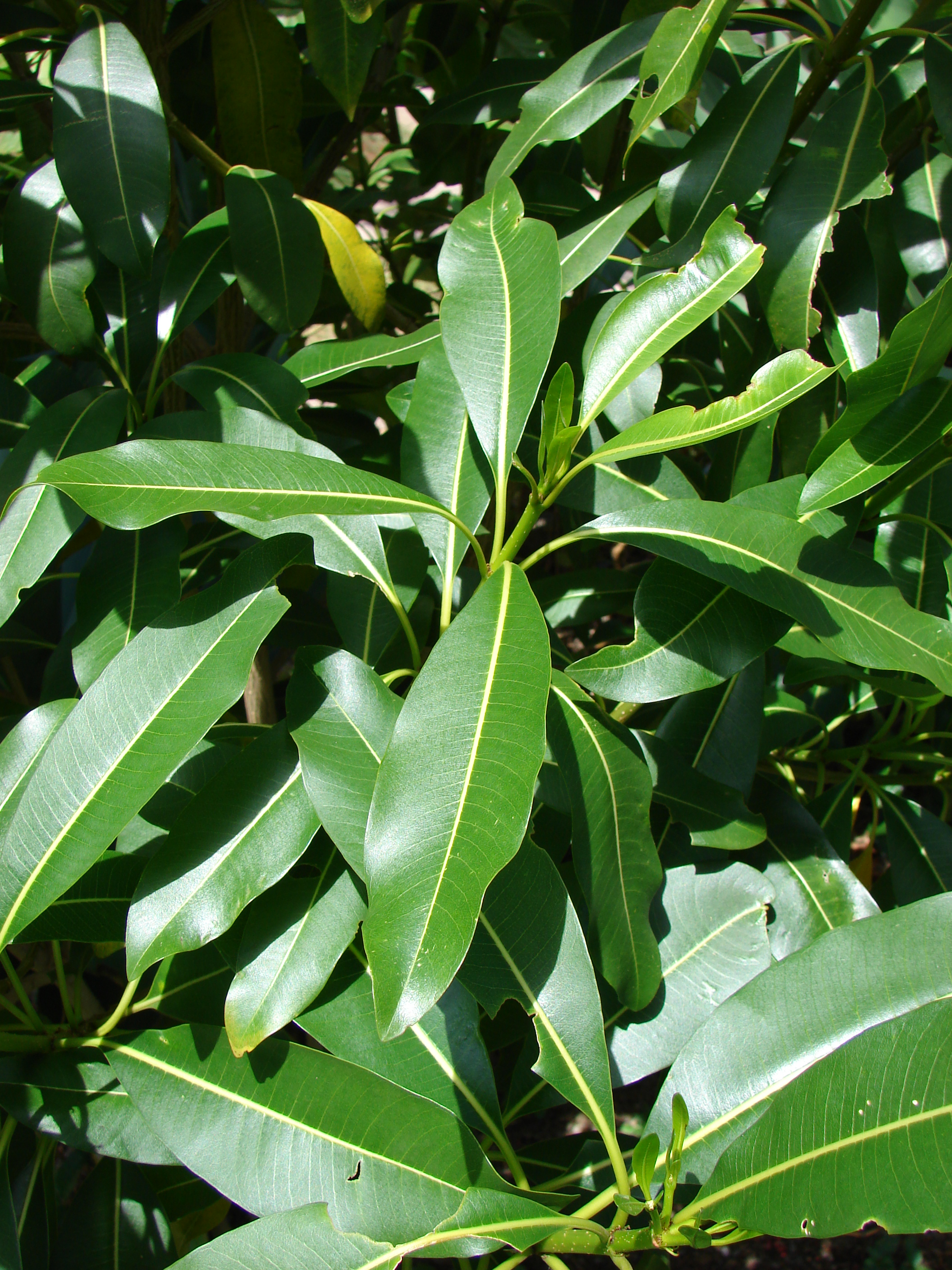 Rauvolfia sandwicensis (leaves). Location: Maui, Makawao